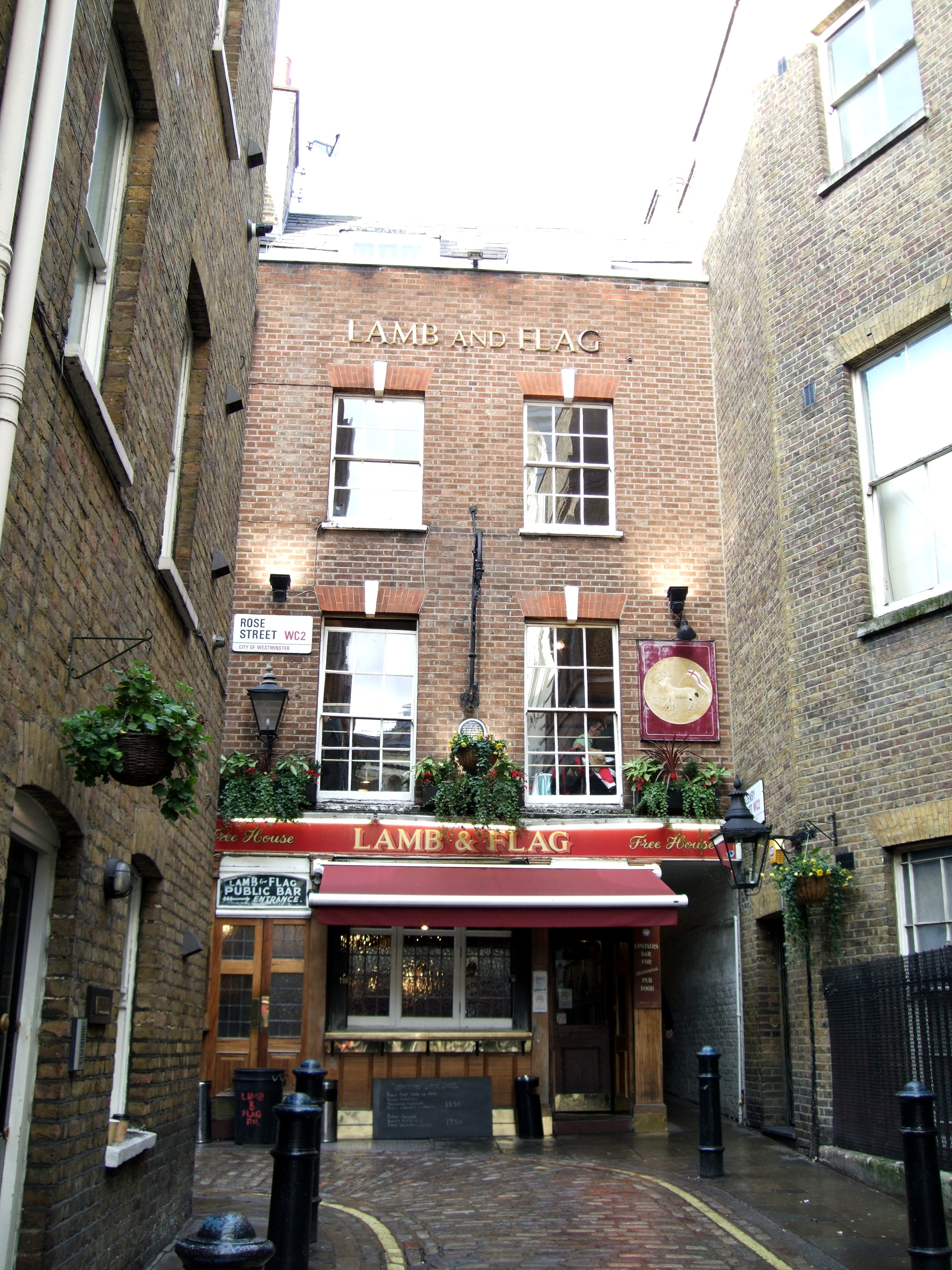 This pub up a small alleyway off Garrick St, gets very very busy, and downstairs is mostly standing room, though it has an upstairs room with tables. Acquired by Fuller's mid-2011. (View of upstairs interior.) (Photo of menu, May 2009.) Address: 33 Rose Street. Former Name(s): The Coopers' Arms. Owner: Fuller Smith Turner; Courage (former). Links: Randomness Guide to London Fancyapint Beer in the Evening Qype Dead Pubs (history)